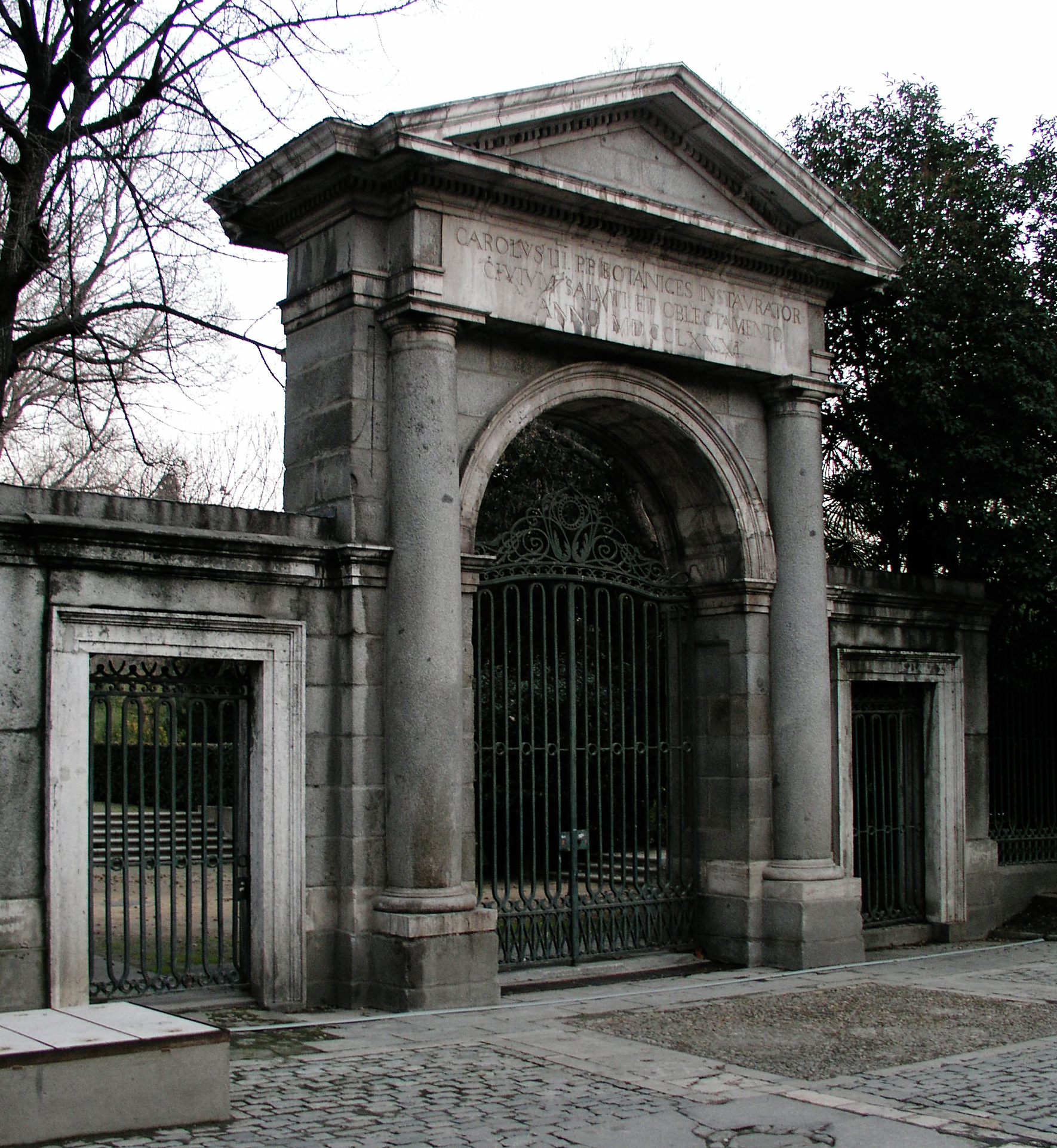 Puerta Real (Royal Gate) of the Royal Botanical Garden of Madrid (1774–1781; 1785–1789). At the Paseo del Prado. Projected by Francesco Sabatini (1722–1797) and built in 1781.